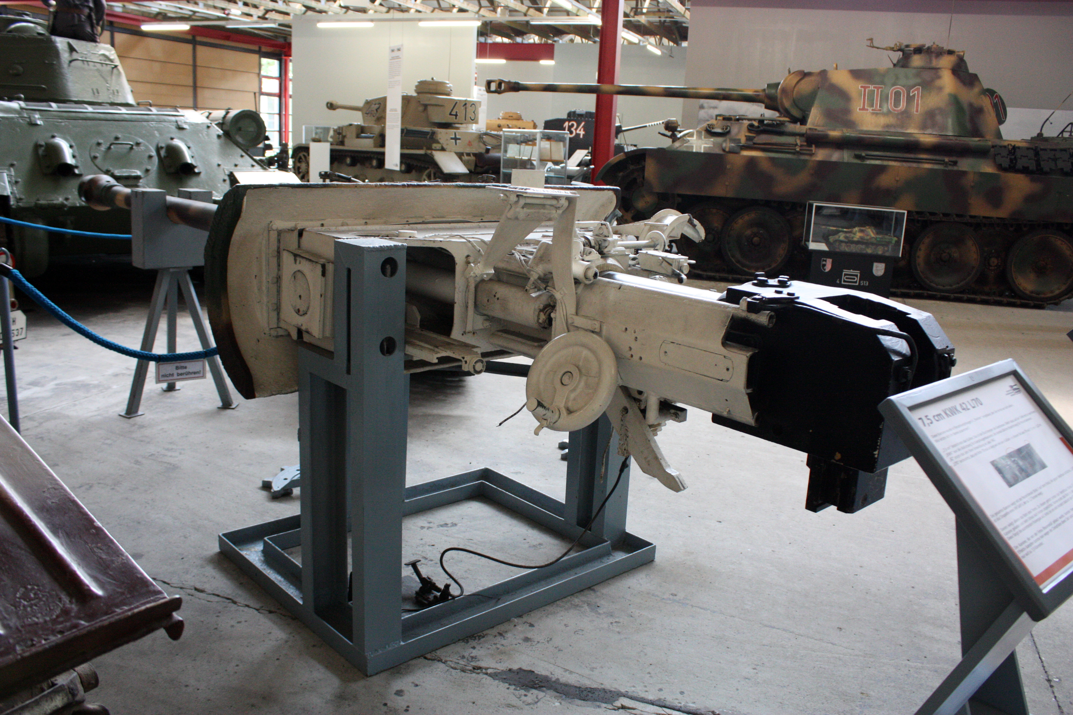 Kampfwagenkanone 7.5-cm-KwK 42 L/70, showmen at the „German armoured fighting vehicle museum" in Munster, Germany, the location of the Munster Training Area camp.